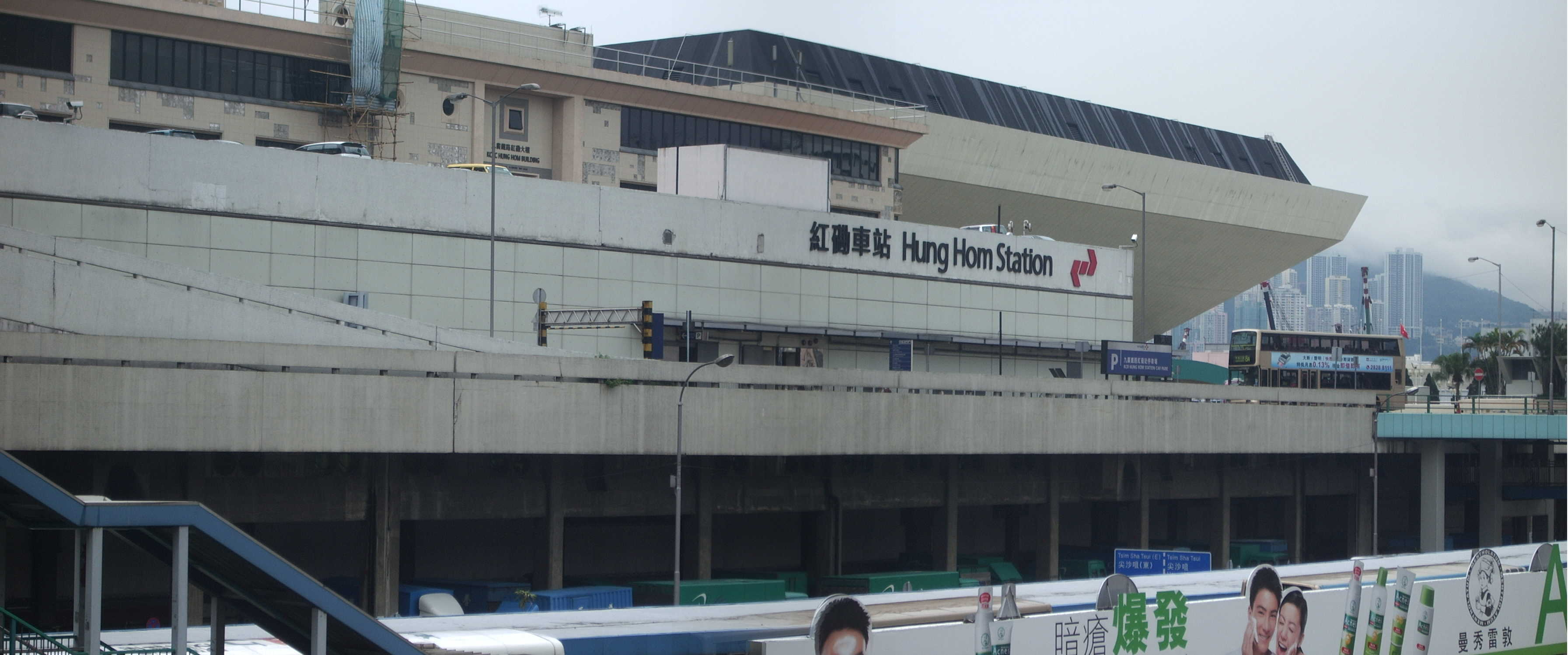 Exterior of Kowloon–Canton Railway Hung Hom station viewed from footbridge connecting to Hong Kong Polytechnic University